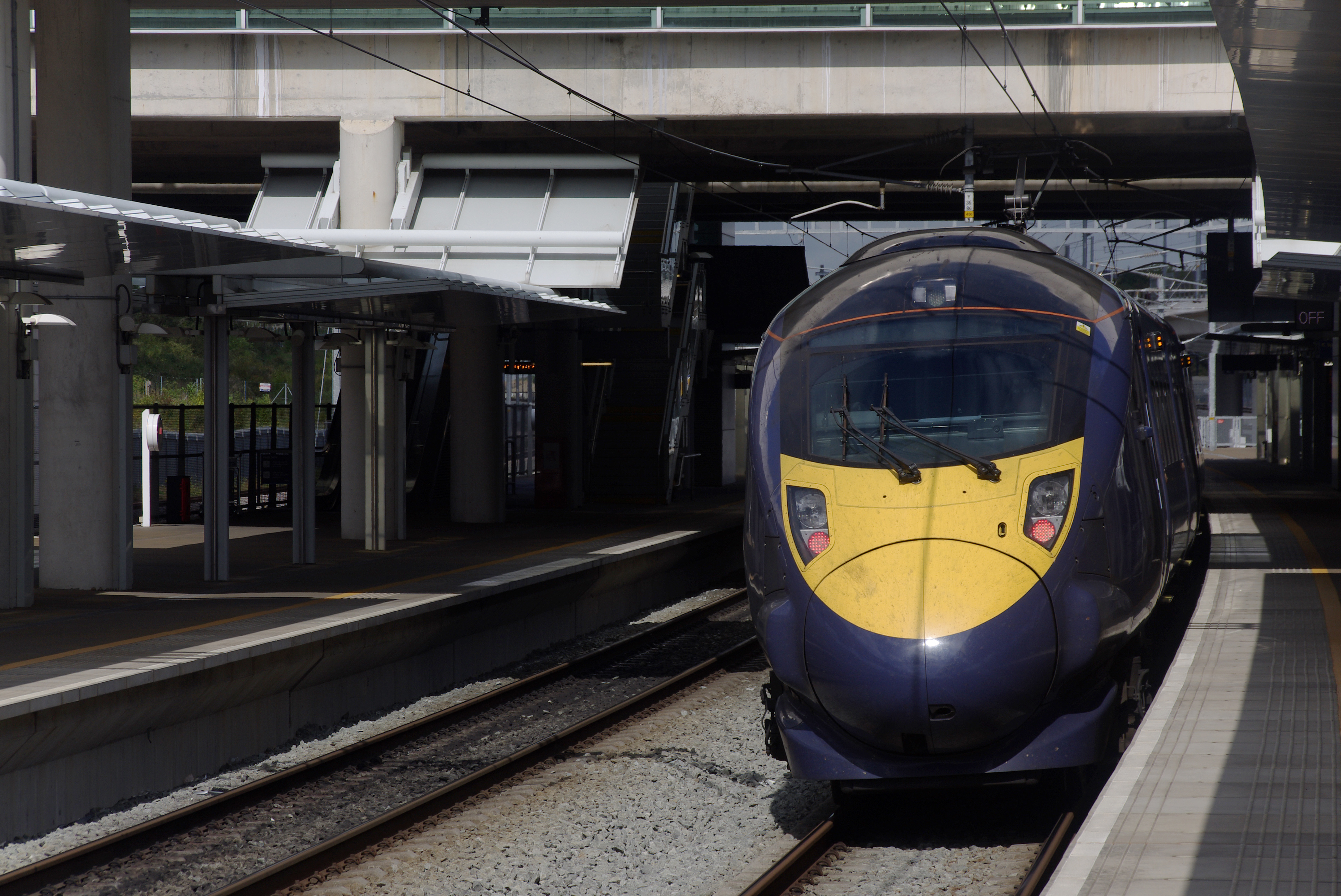 Southeastern Class 395 "Javelin" High Speed EMU 395004 departs Ebbsfleet International station with a service to St Pancras.